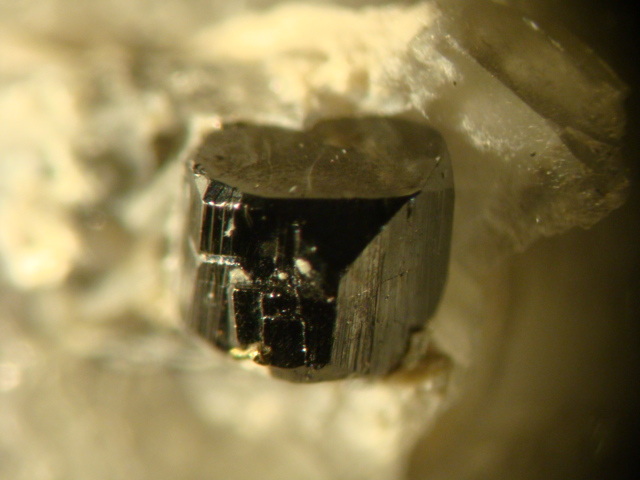 A genuine perfect (size: 0.7 mm) Stephanite single crystal perched on Calcite. Seldom we can see Stephanite from Chile and this particular one is from the Chañarcillo district, though is a very diminute xx - FOV 2x2 mm aprox